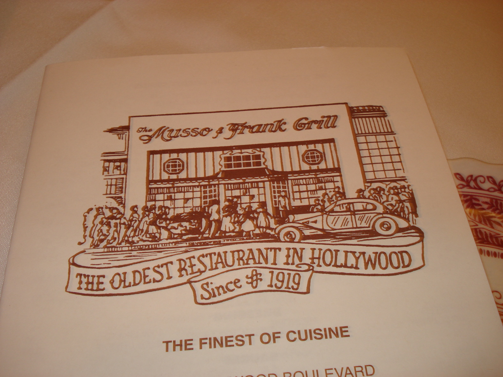 The first page of the menu at Musso and Frank Grill.